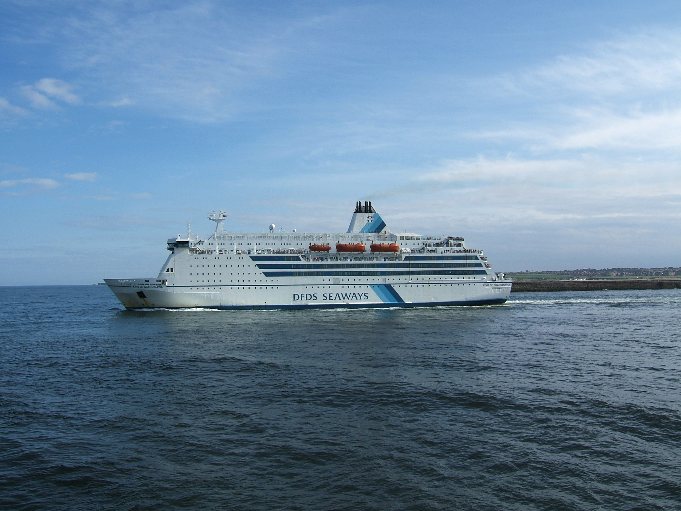 DFDS passenger ferry MS 'King of Scandinavia' leaving the Tyne, UK for IJmuiden, Netherlands. Viewed from Tyne north pier across to South Shields.